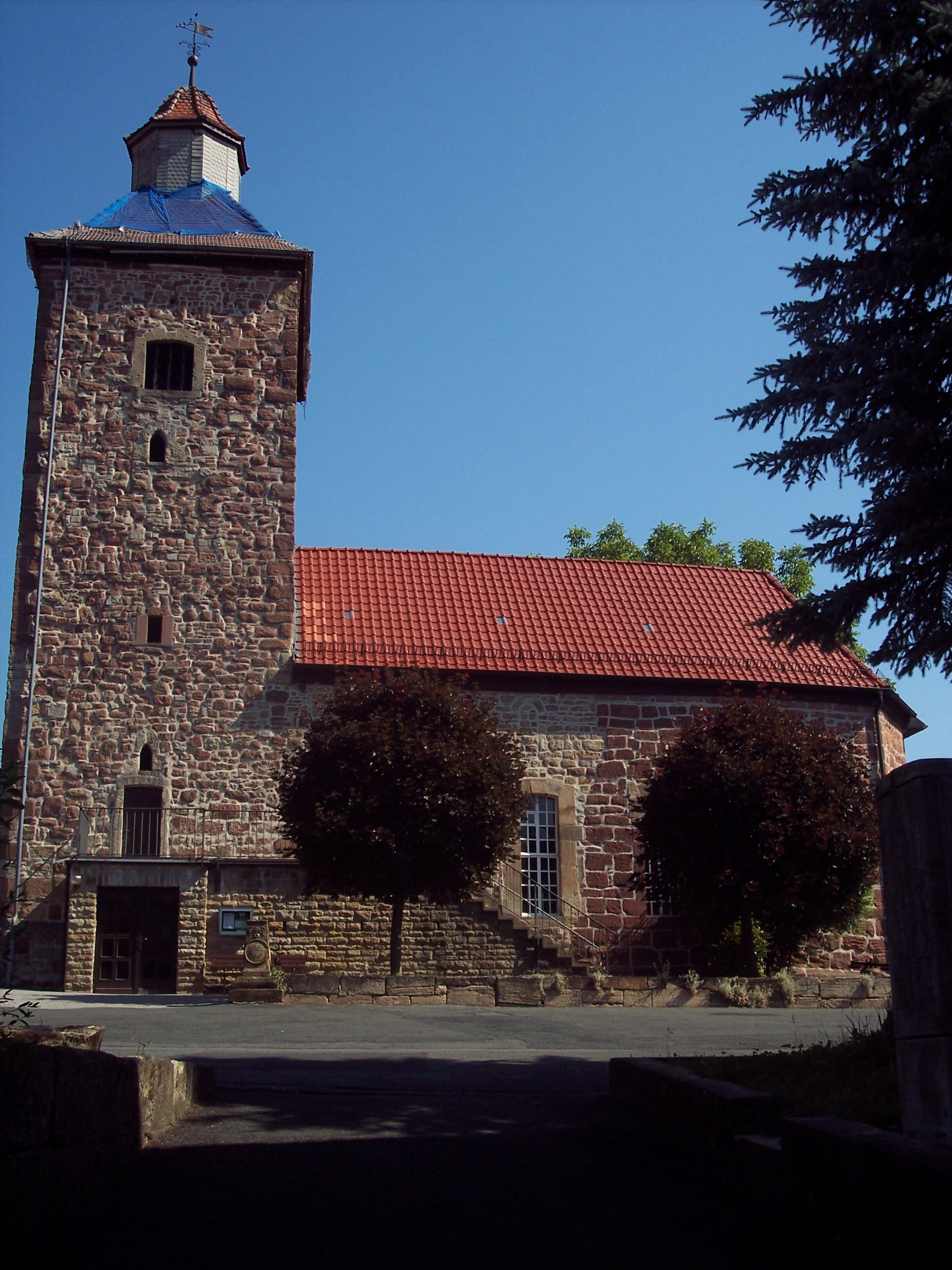 Church of Datterode